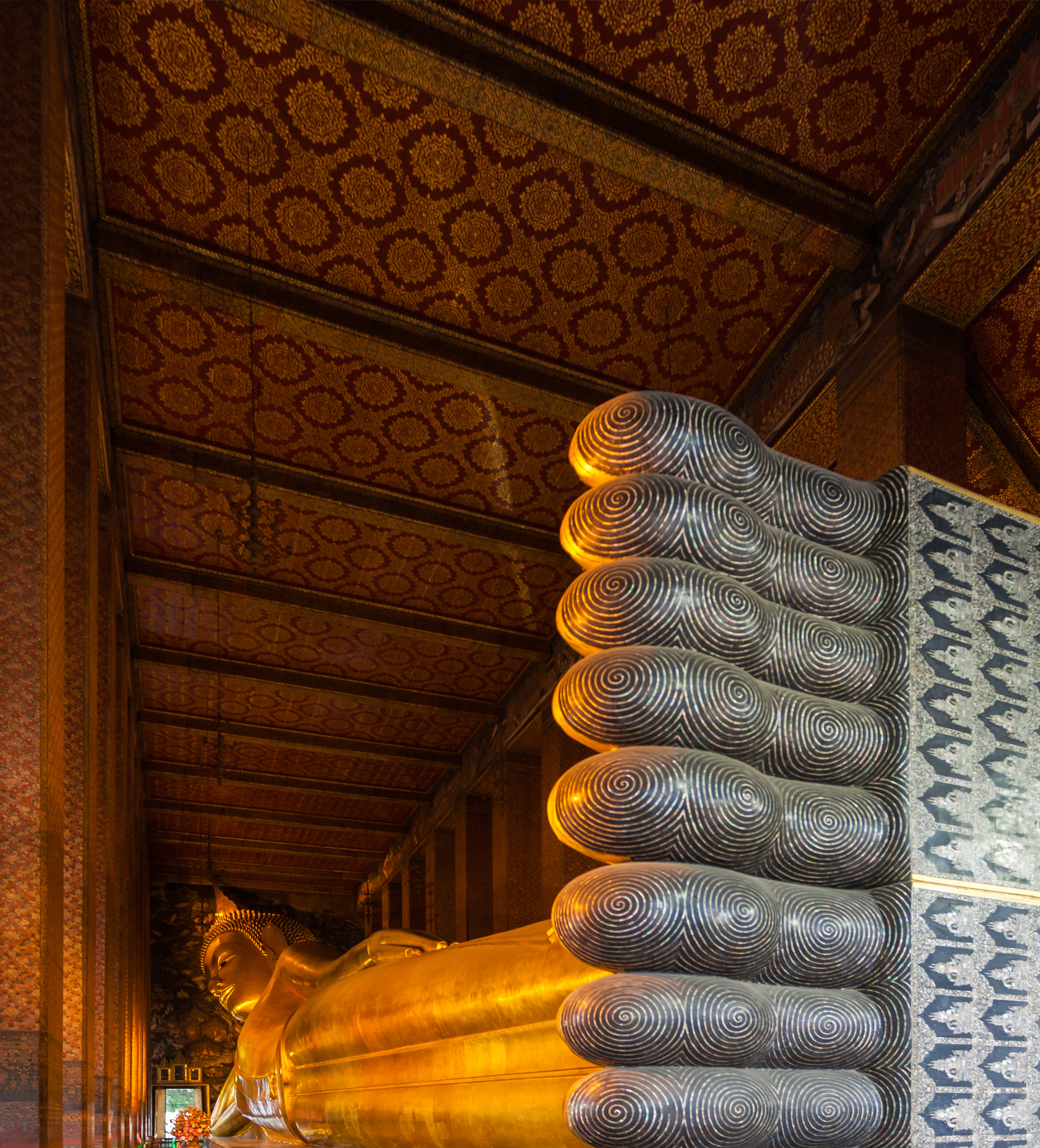 Reclining Buddha statue, Wat Pho, Bangkok, Thailand